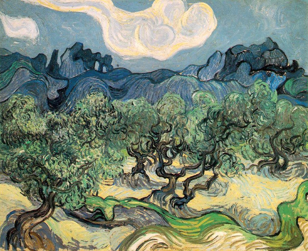 Olive Trees with the Alpilles in the Background F_712 JH_1740 o/c, 73×92 cm, Museum of Modern Art, New York